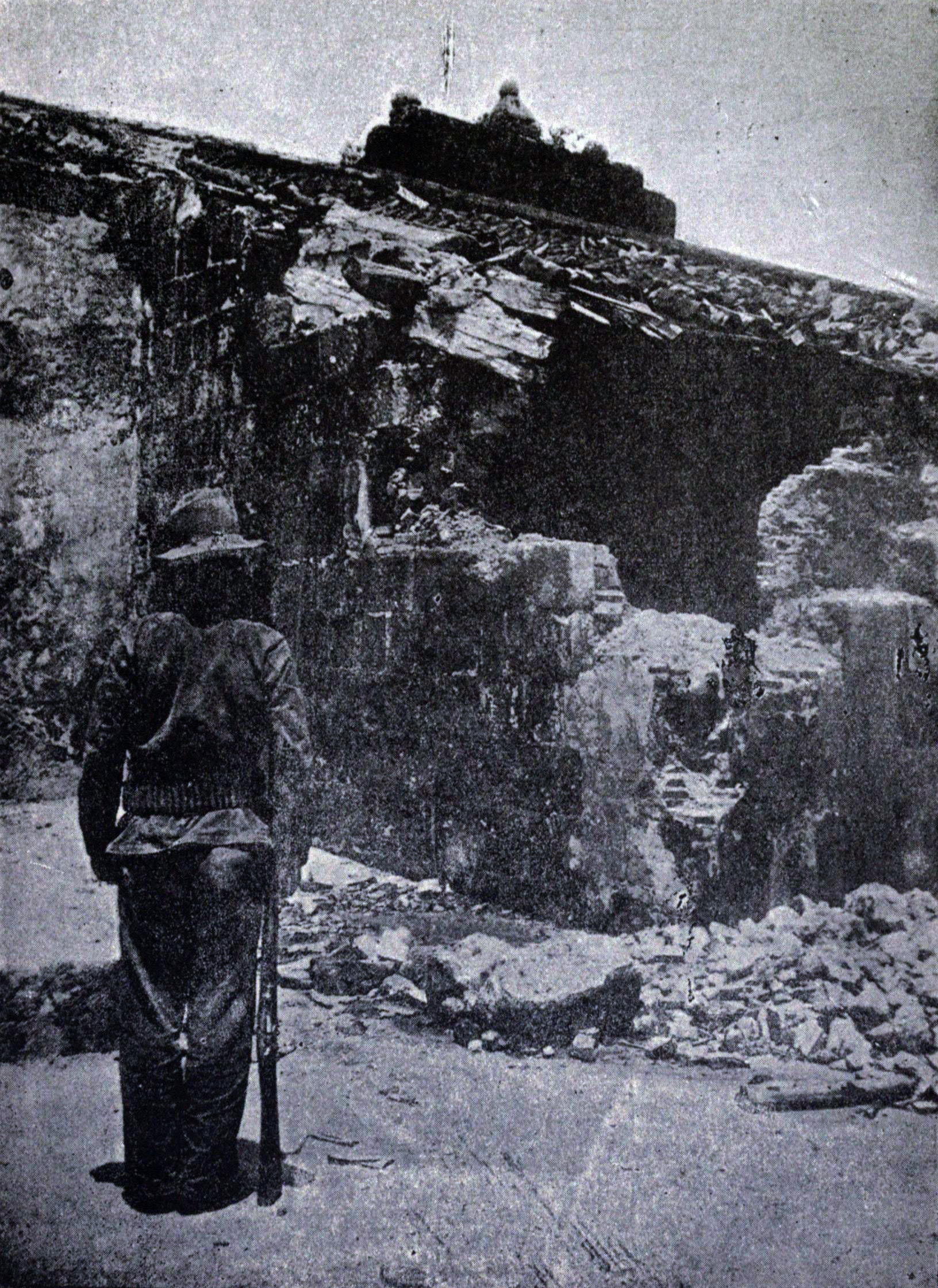 Original description (cropped out): Fort San Antonio: Commonly called, Fort Malate and a place of considerable strength when the Spaniards held Manila. It shows the effect of one of Dewey's six inch sells [sic]. From Souvenir of the 8th Army Corps, Philippine Expedition, published by Dow Bros. in Manila, 1899.